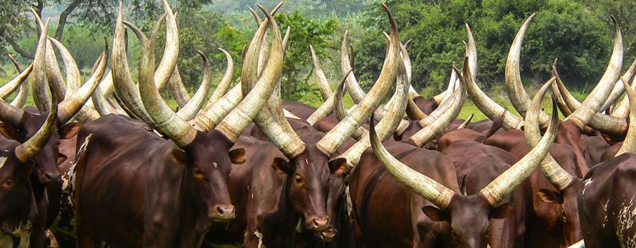 Tutsi cows